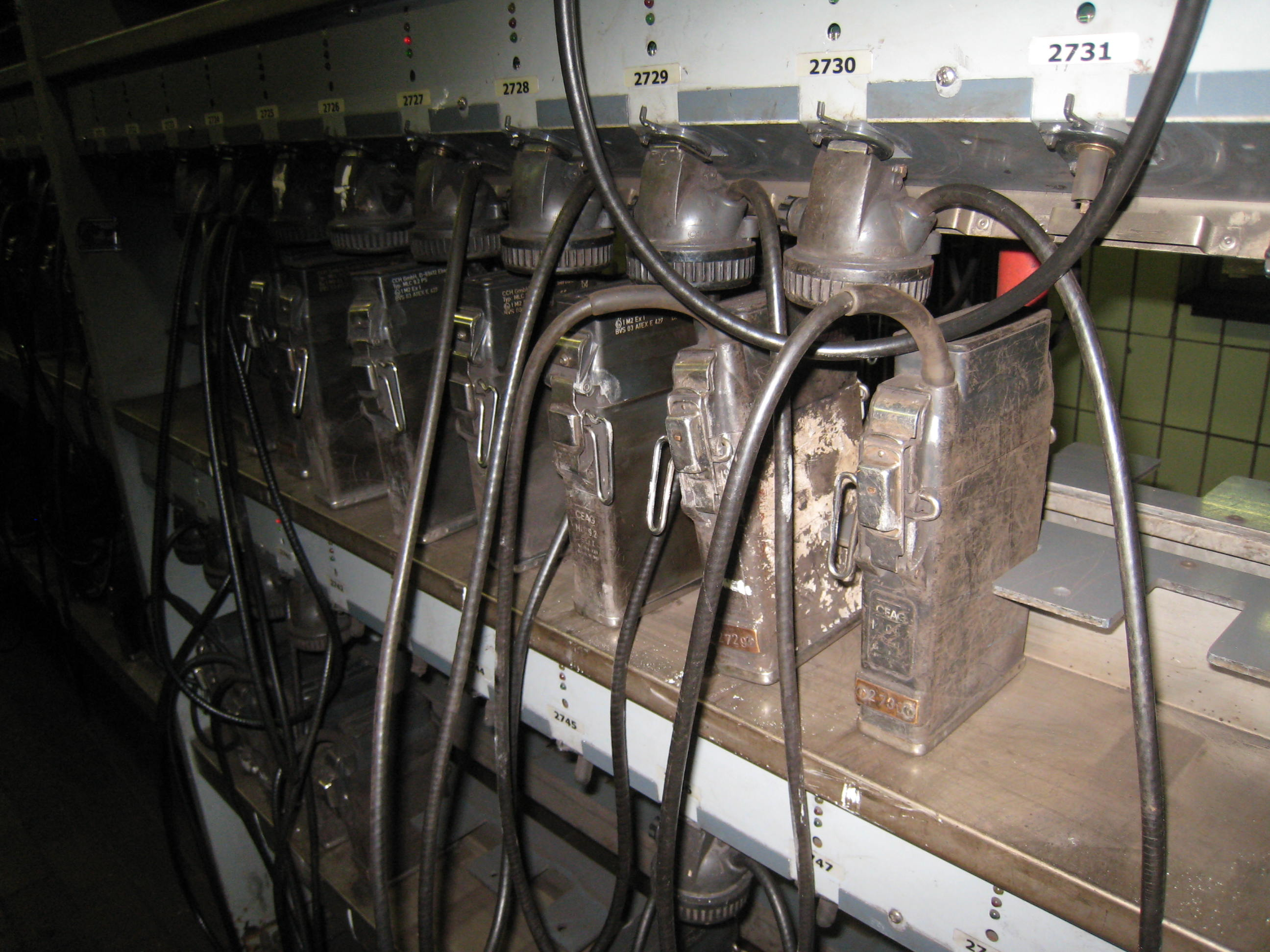 Mining Lamps